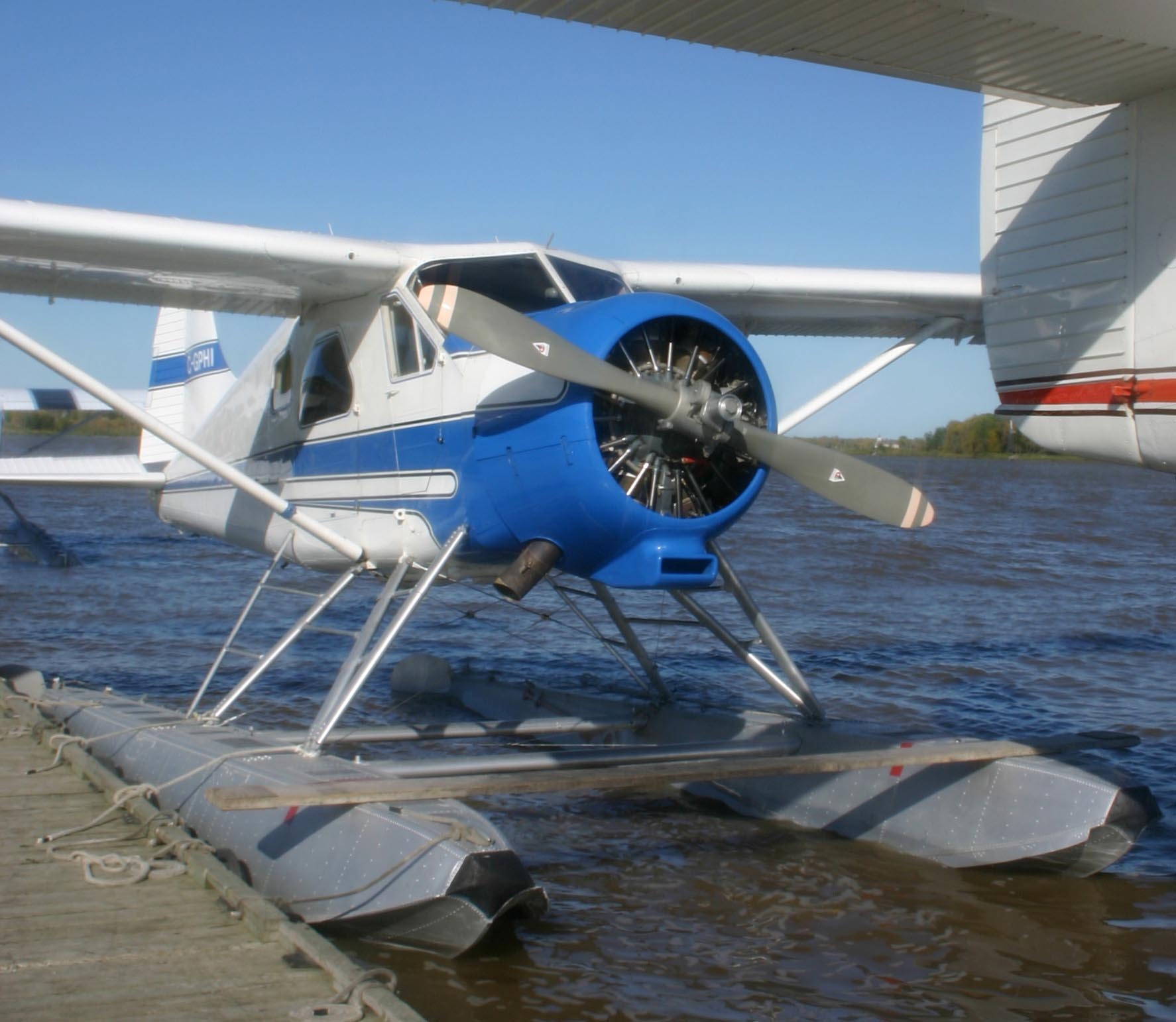 DHC-2 Beaver C-GPHI on EDO floats from Enterlake Air Service Ltd., Selkirk Air, Selkirk MB, 2004